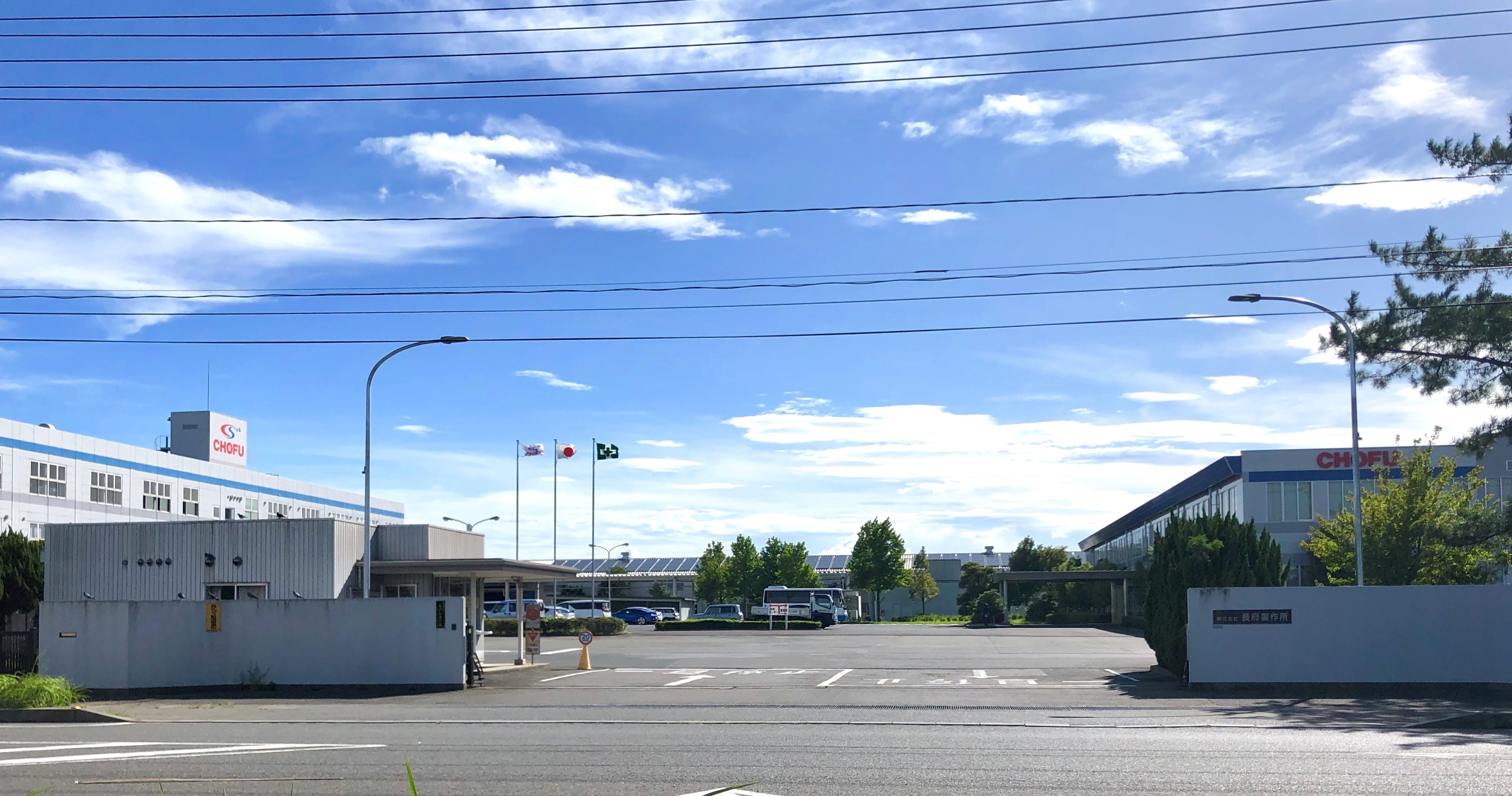 CHOFU SEISAKUSHO headquarters in Shimonoseki, Yamaguchi prefecture, Japan.